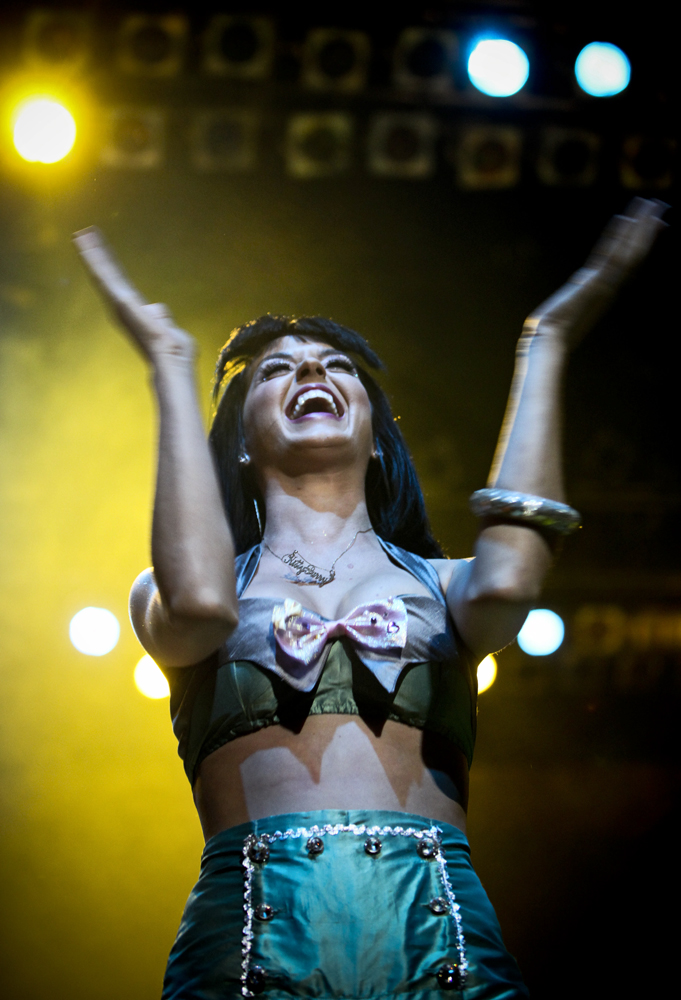 American singer Katy Perry, performing live at Campo Pequeno, June 28th 2009, in Lisbon.